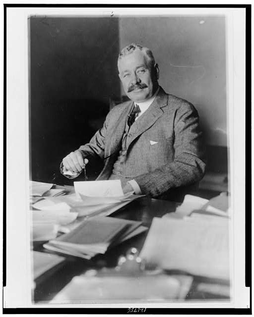 Joseph S. Frelinghuysen, half-length portrait, seated at desk, facing slightly left